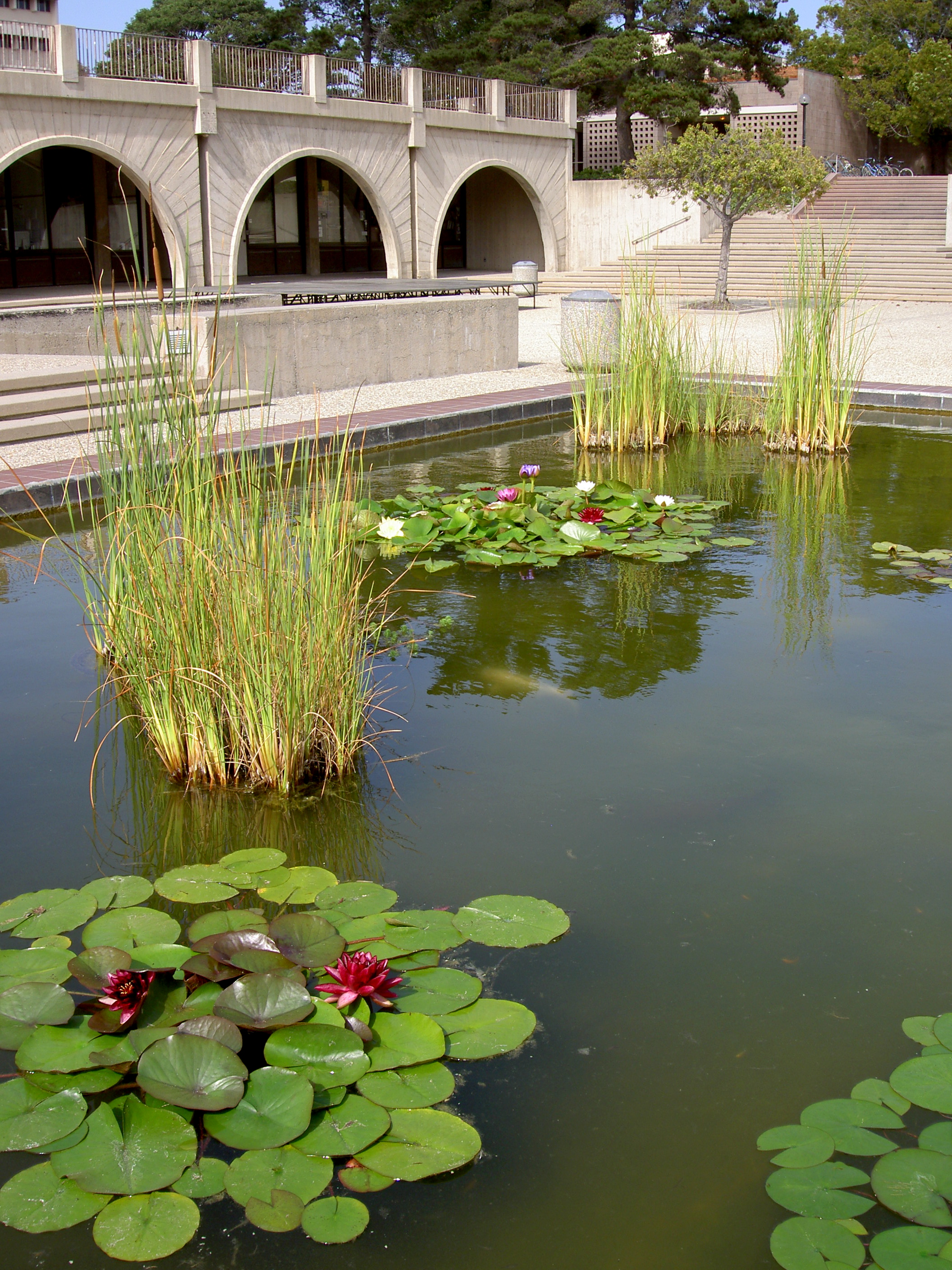 At the University of California, Santa Barbara. A nearby plaque says: "The Storke Plaza Pond Restoration Project restores the reflecting pond. In lieu of a mechanical pump to maintain the pond, a bio-filtration system has been installed to provide an enviornmentally sensitive solution and energy savings. The pond now contains plants and fish that provide a biological balance within an aquatic environment."